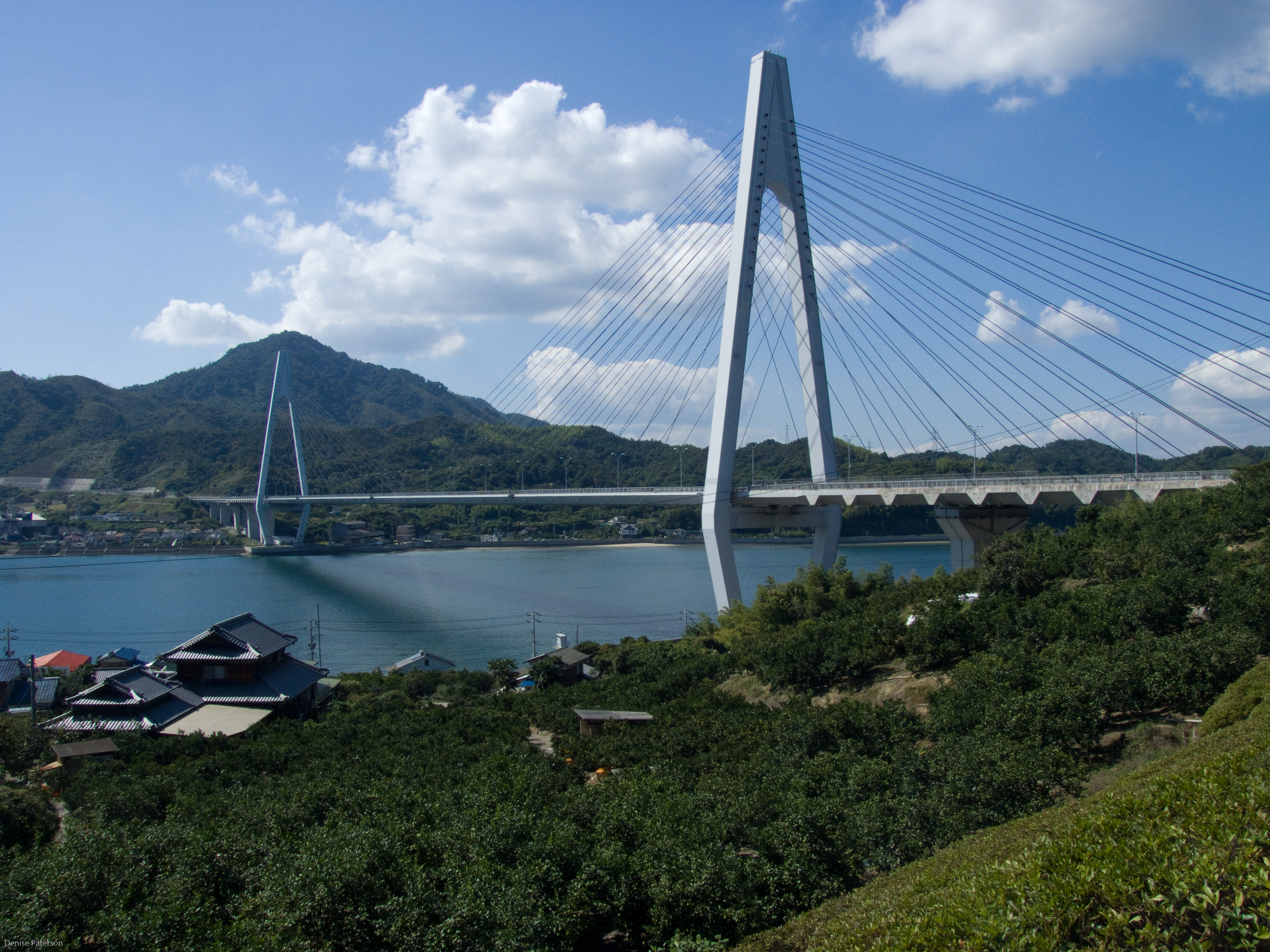 The Ikuchi bridge in Hiroshima Prefecture, Japan